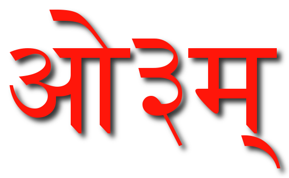 Kumar Pashine : I created this image using an OpenType font 'Akhil HE' in 2.0. This is the correct way of writing ओ३म् 'Om' (as per Arya Samaj). ओ३म् O3m (Aum), considered by the Arya Samaj to be the highest and most proper name of God.